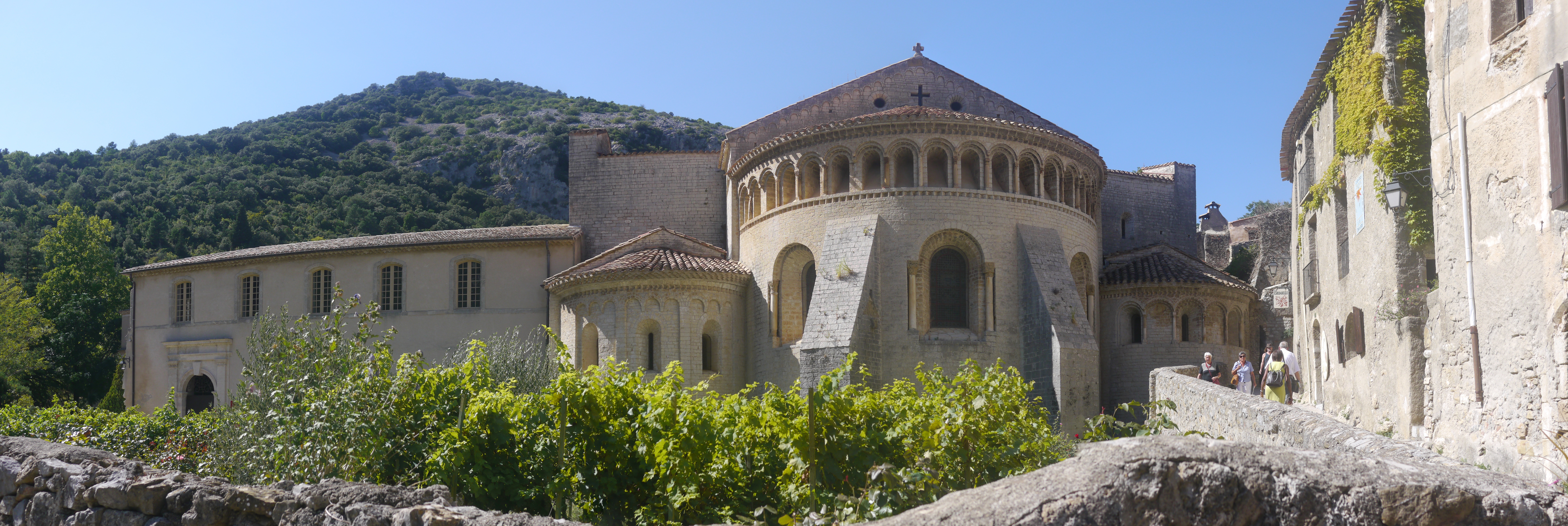 photographs taken at the Musée de L'Abbaye during the 'Journées du patrimoine' on the 15th of september 2012.